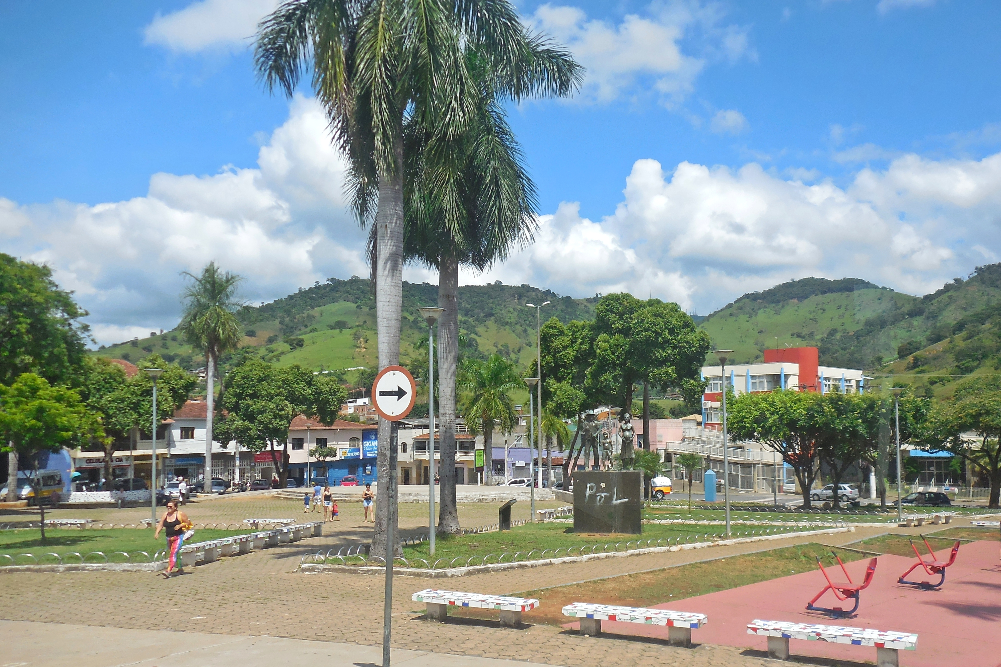 Partial view of the 29 de Abril (29 April) Square, in Timóteo, Minas Gerais, Brazil.